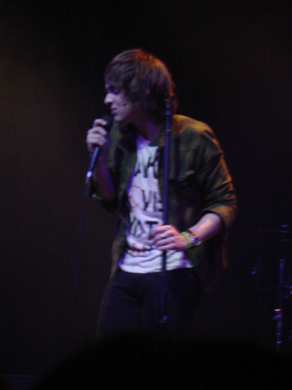 Paolo Nutini in 2007